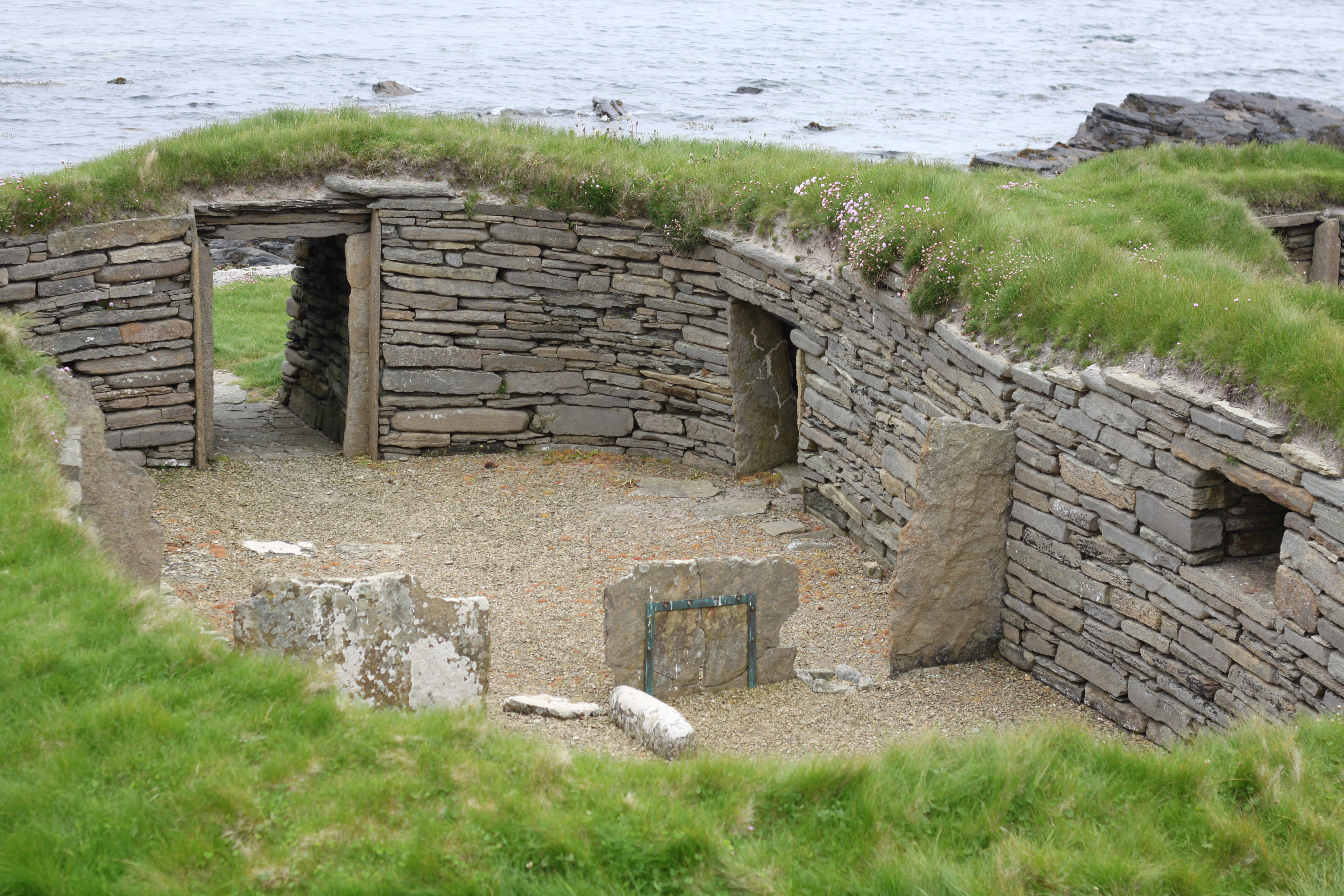 Knap of Howar in Papa Westray, Scotland - possibly the oldest stone house in Northern Europe.